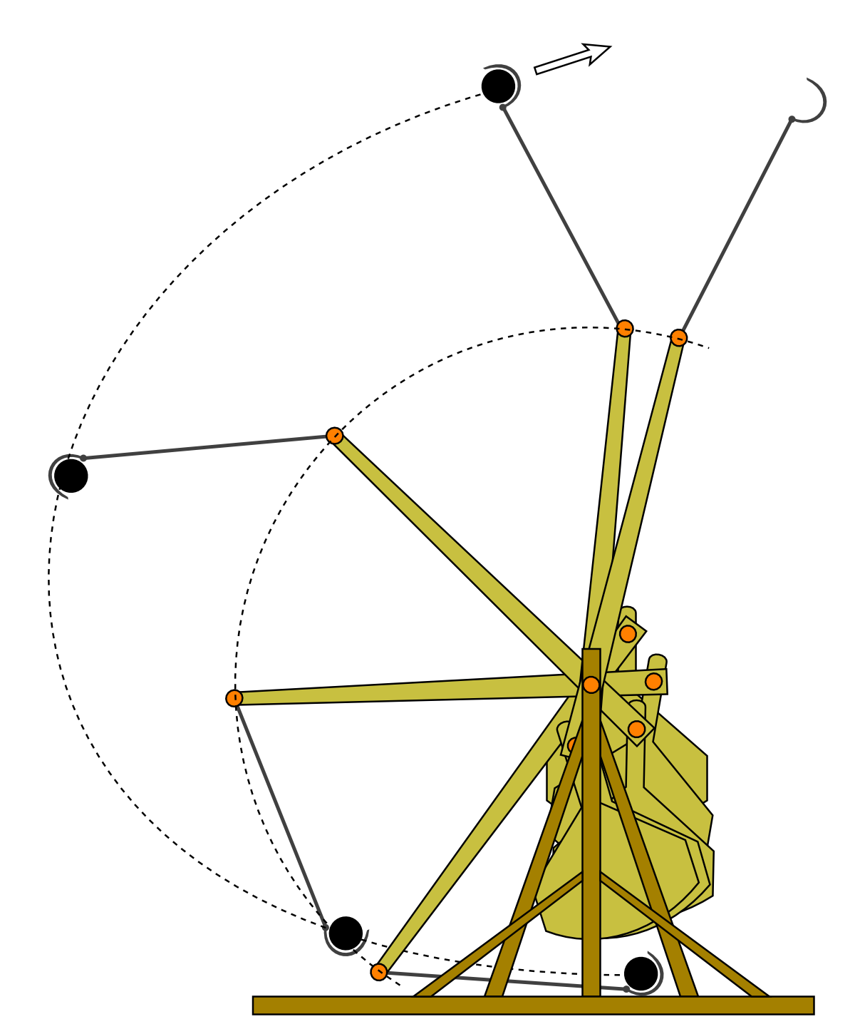 Operation scheme of a trebuchet